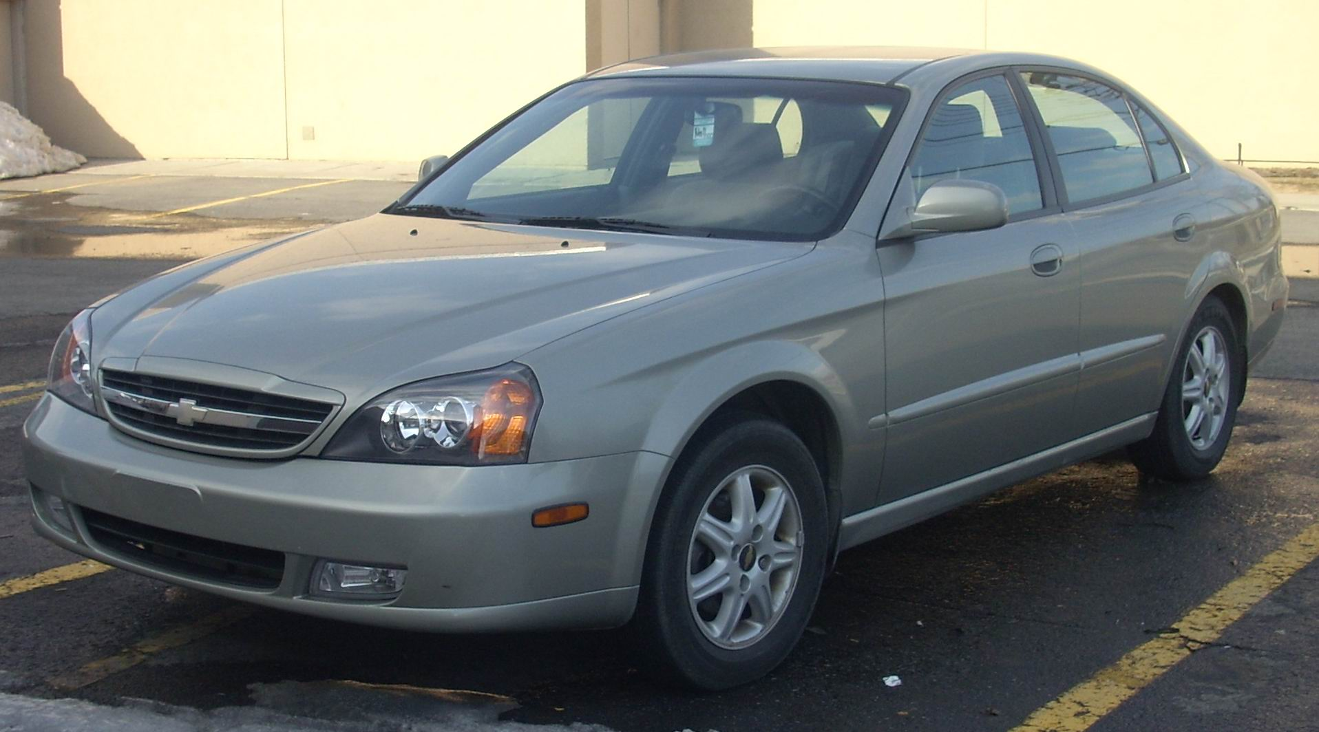 2004-2006 Chevrolet Epica photographed in Montreal, Quebec, Canada.